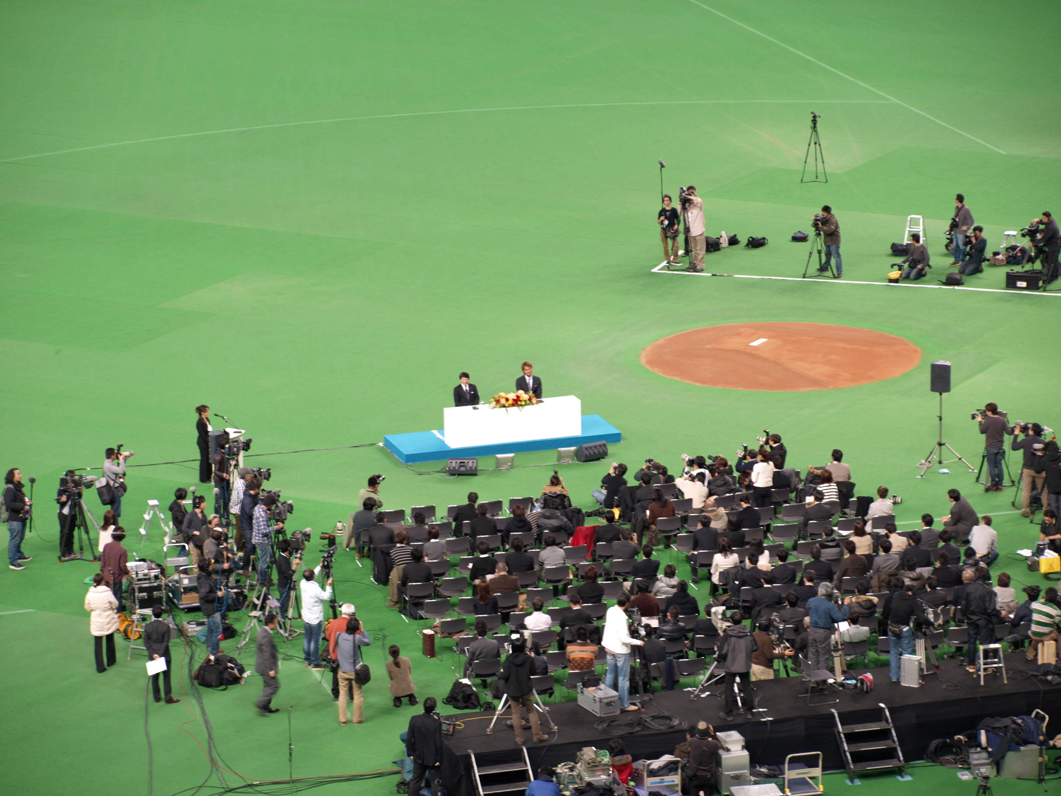 Yu Darvish and Hokkaido Nippon-Ham Fighters held a press conference at Sapporo Dome.